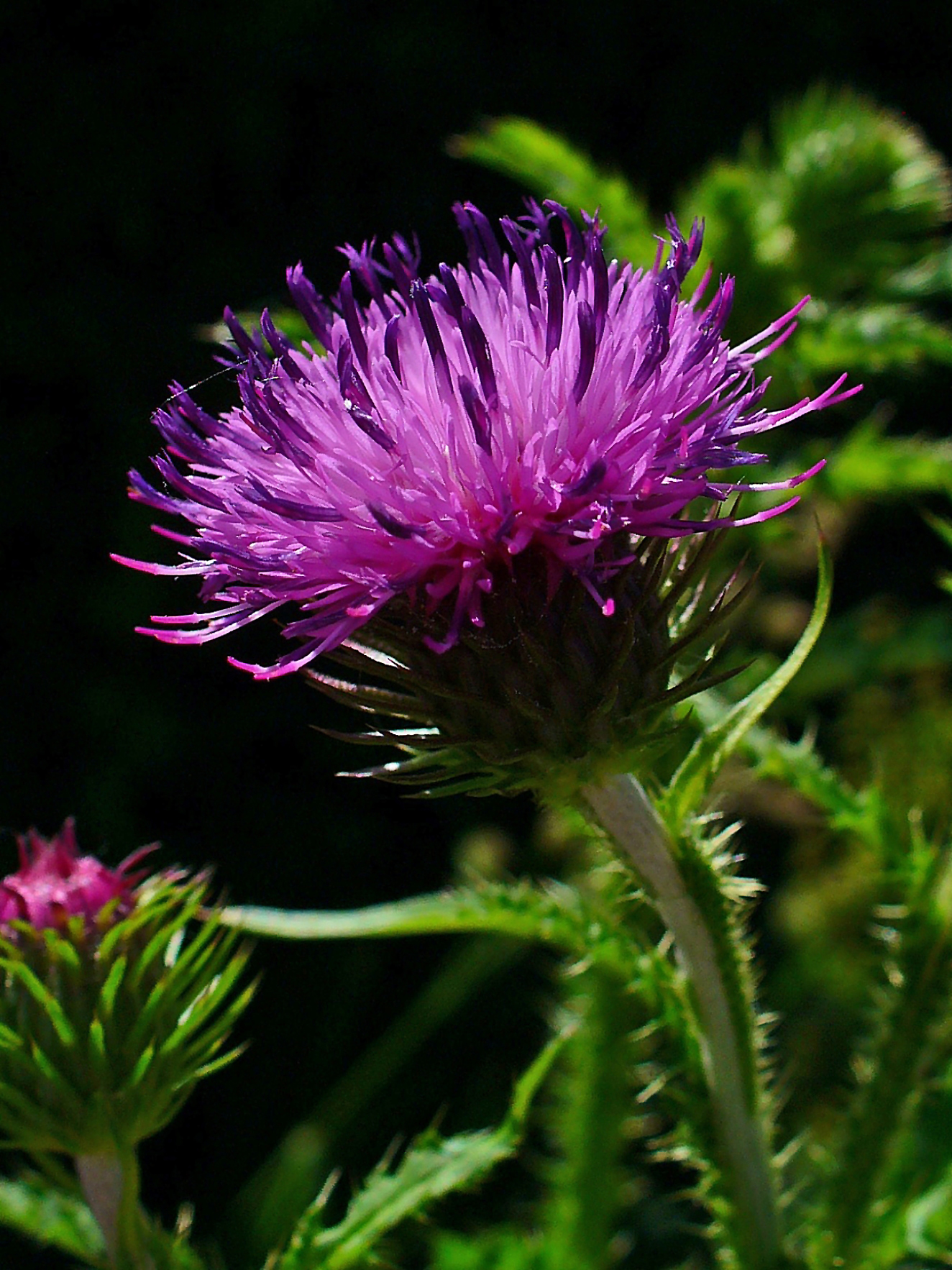 Carduus crispus, Asteraceae, Welted Thistle, inflorescence; Karlsruhe, Germany.